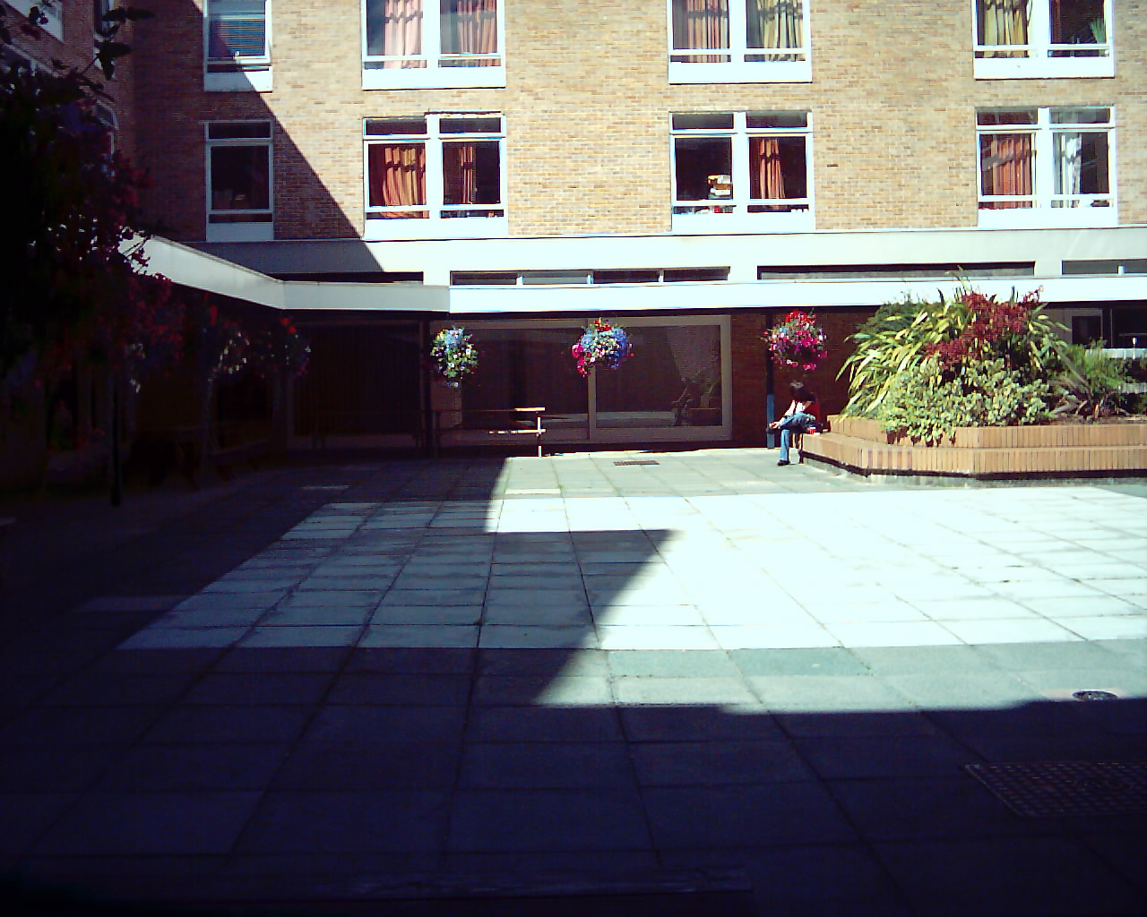 Furness College, Lancaster University. Taken by myself.